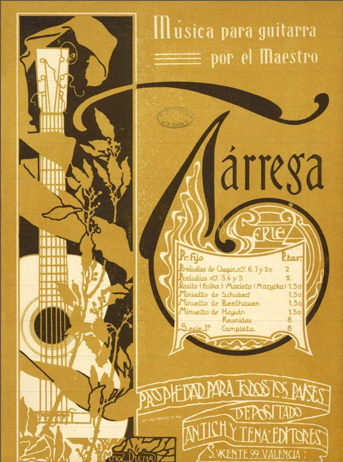 Original Covers of Tarrega's music by editor Ildefonso Alier